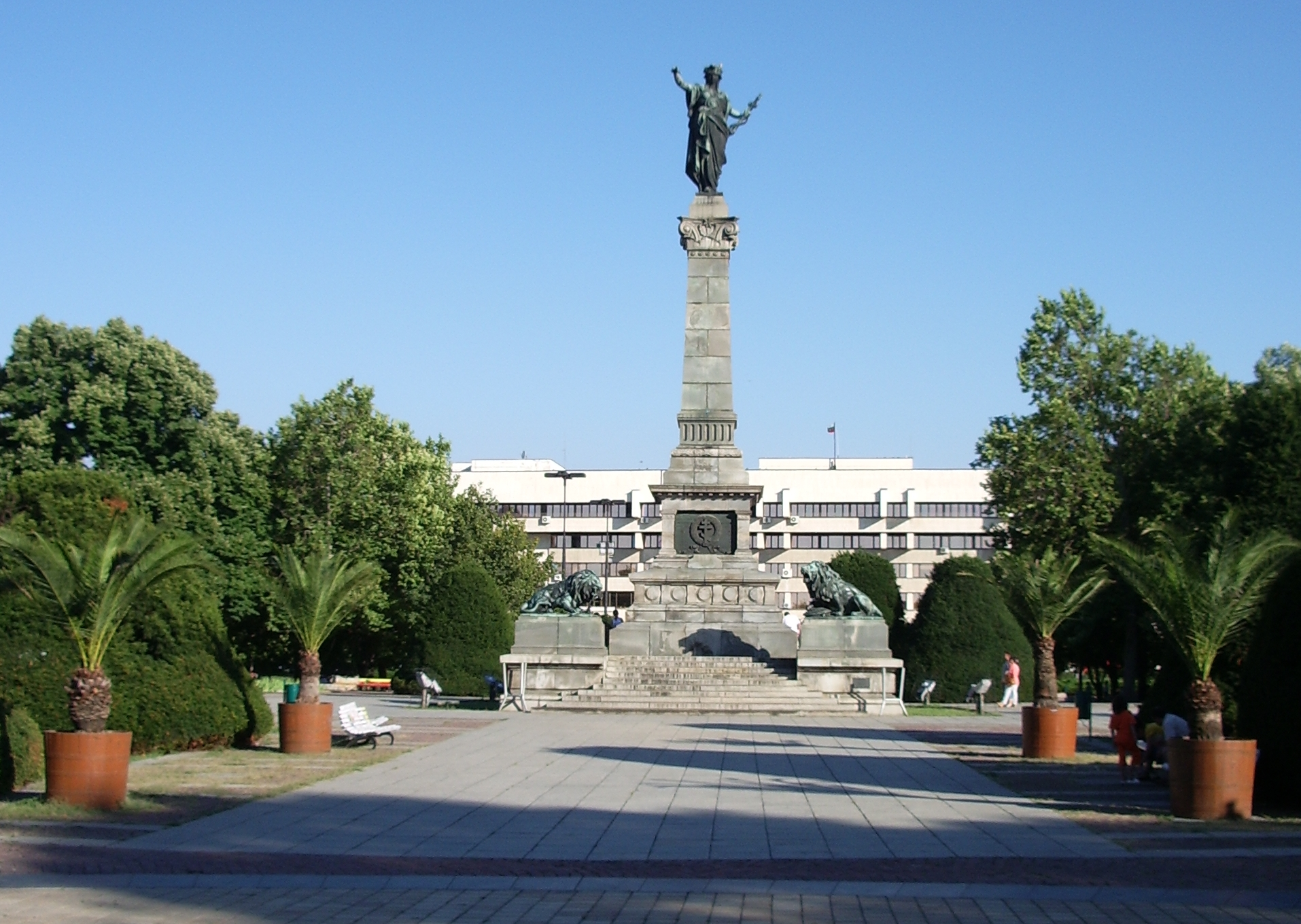 The Monument of Liberty in Rousse, Bulgaria (palm trees)